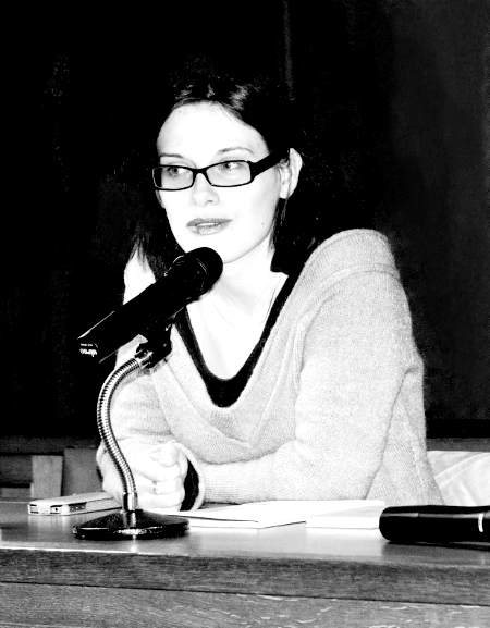 Remise du Prix Louis Guillaume